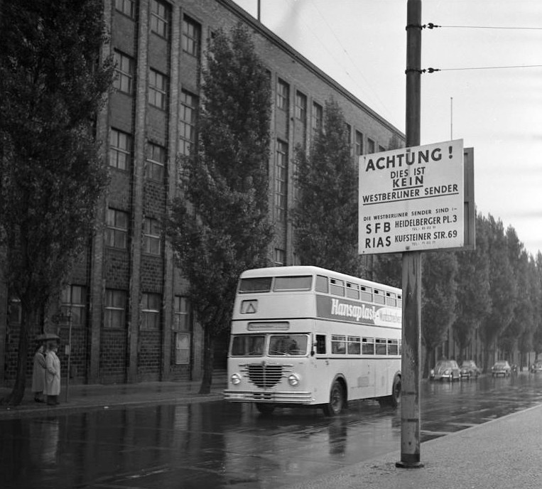 Behind the BVG bus is the Haus des Rundfunks in the former British sector in West-Berlin, back then seat of the Soviet-controlled Berliner Rundfunk of the GDR. The sign warns: "Attention! This is not a West Berlin [radio] station. The West-Berlin stations are SFB, RIAS". Despite the photo's original caption, it was not taken at the border ("Zonengrenze").